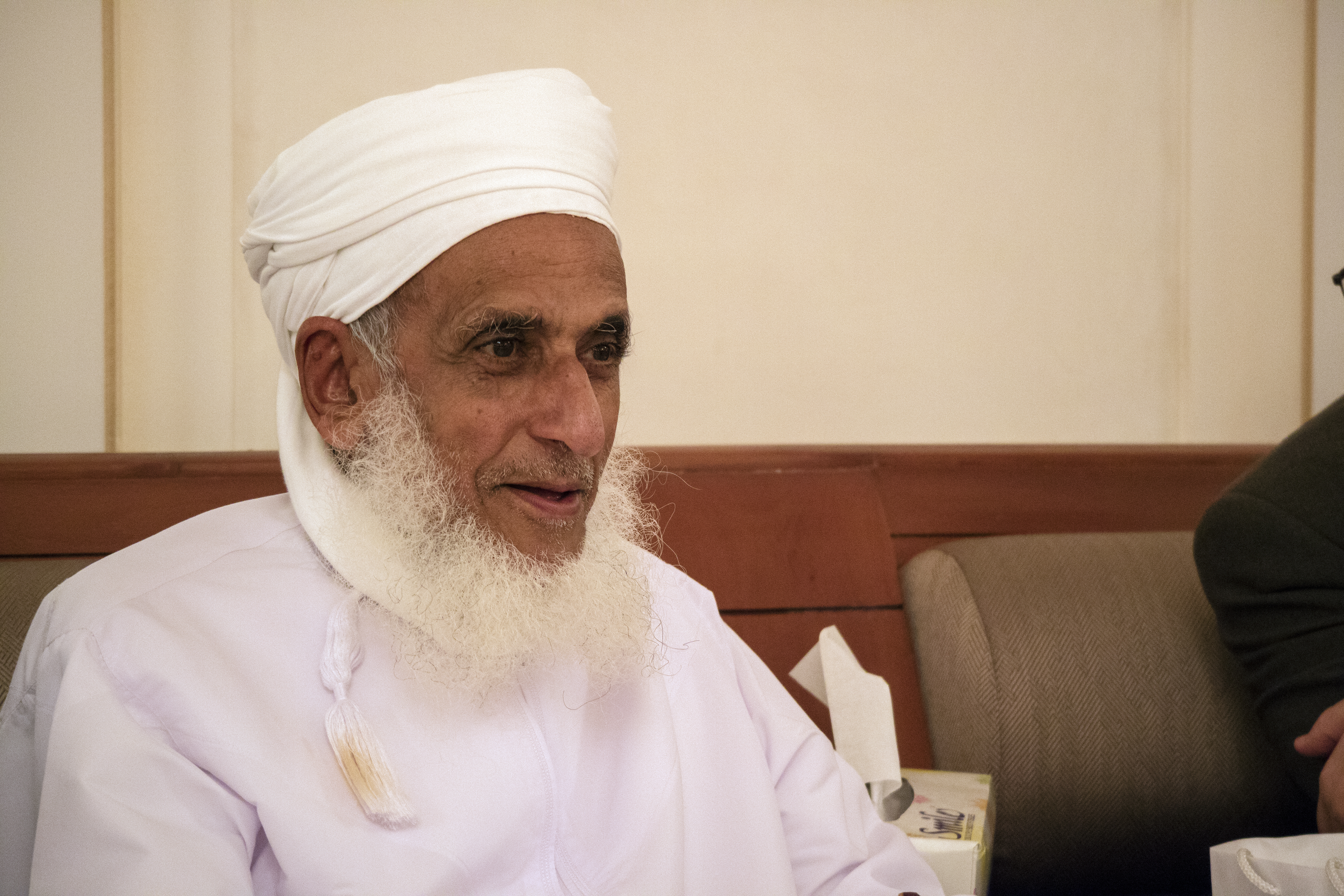 Sheikh Ahmad bin Hamad Al-Khalili (Arabic: أحمد بن حمد الخليلي) (born 1942) is the Grand Mufti of the Sultanate of Oman.